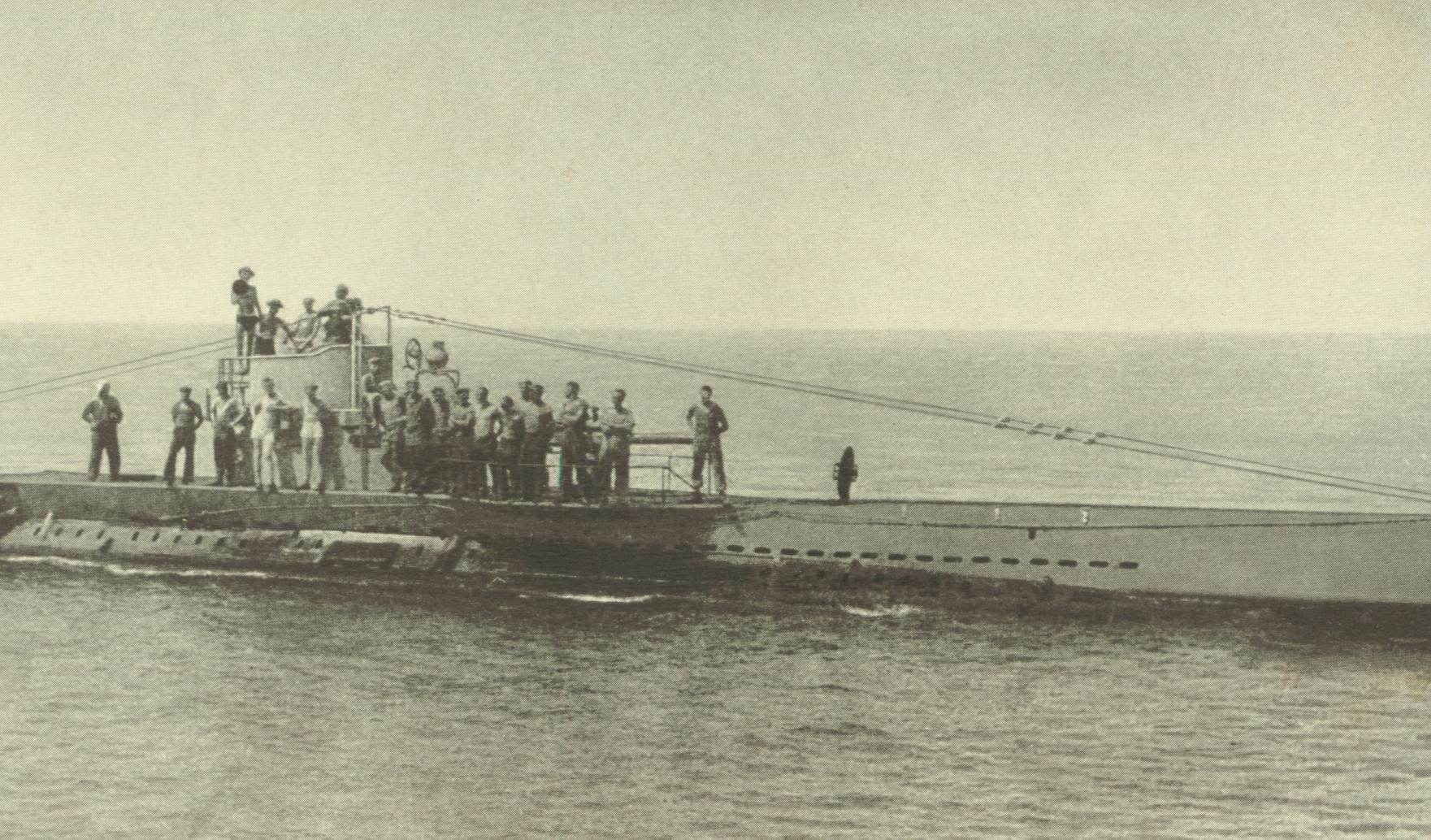 SM U-38 of the german imperial navy, original title: „In sicheren Gewässern. Erfrischendes Morgenluftbad nach anstrengender Nachtfahrt“ („In safe water. Refreshing bath of air in the morning after exhausting night-cruise“)